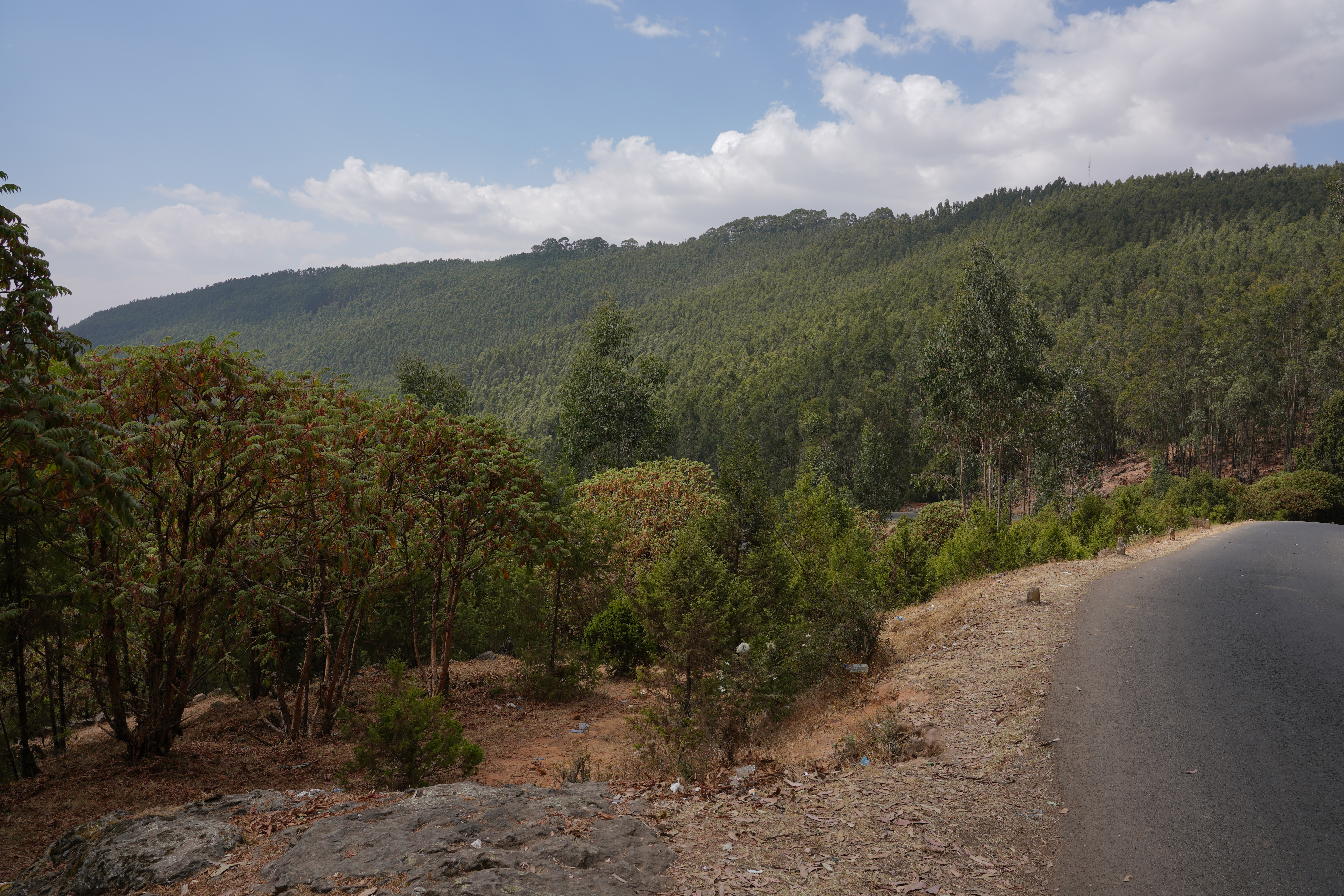 Road on Entoto Mountain in Addis Ababa, Ethiopia